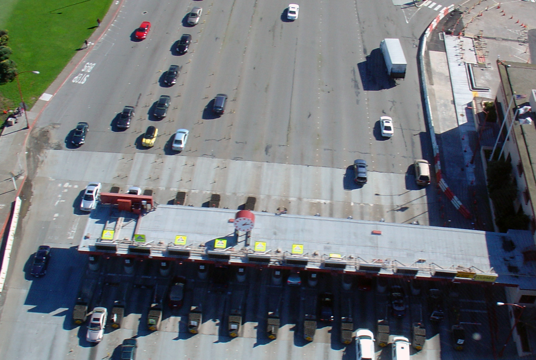 Golden Gate Bridge tollbooth